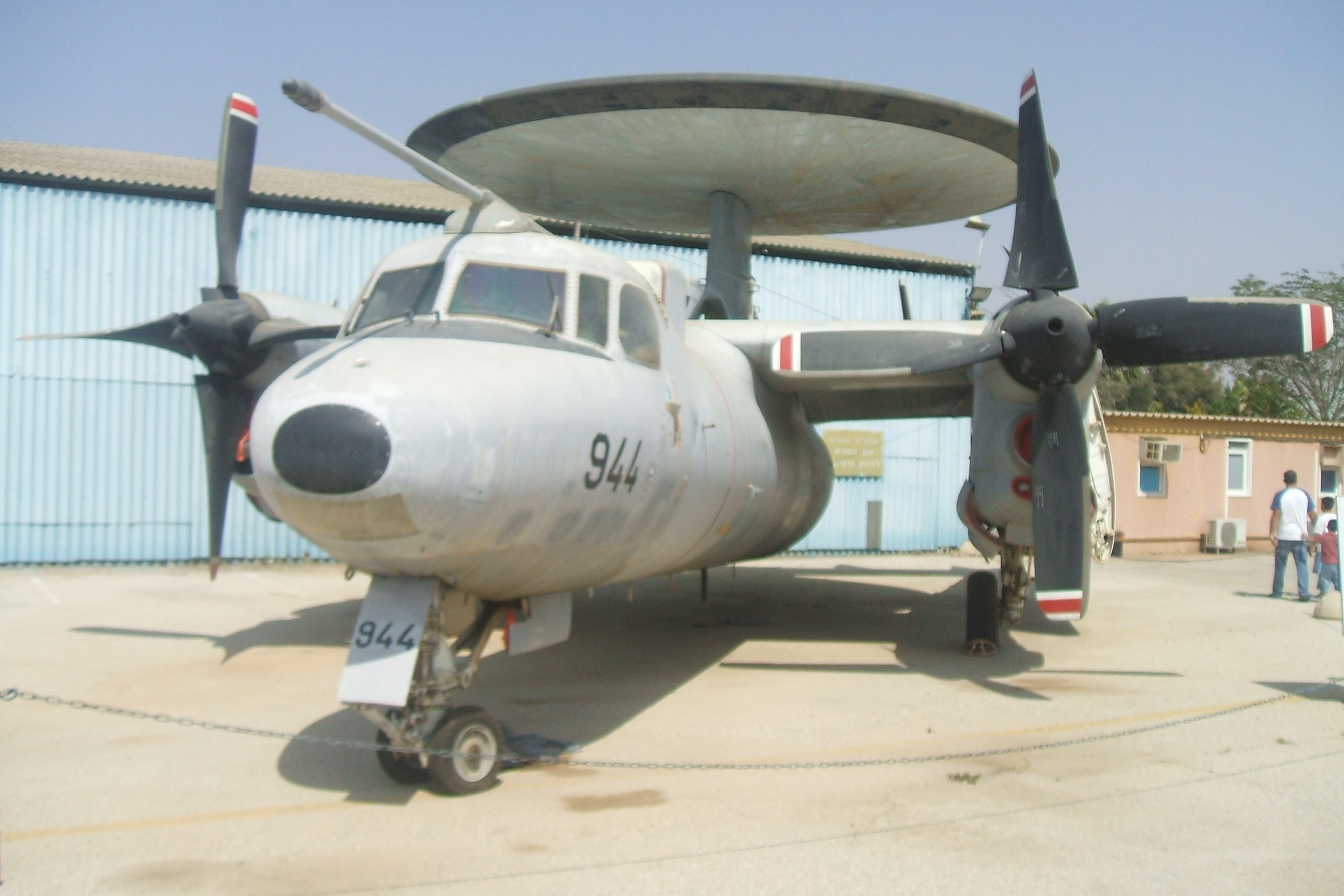 "Grumman E-2C Hawkeye" which is a flying radar station. The picture was taken in the Israeli Air-Force Museum in Hazerim.